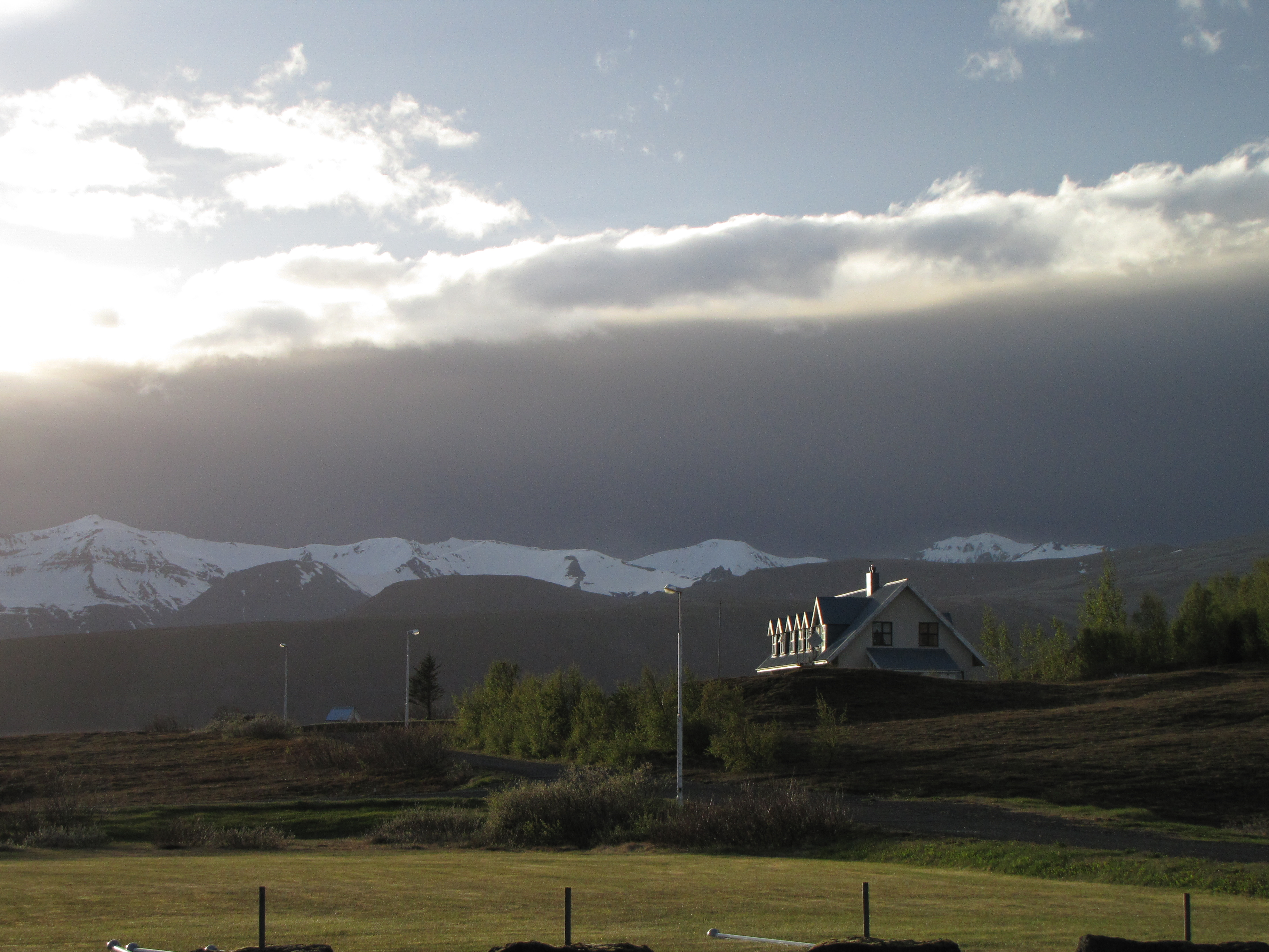 Ash cloud rising over the horizont shortly after the Grímsvötn 2011 eruption, 21 May, as seen from the Foss Hotel at Skaftafell, looking torwards Grímsvötn.